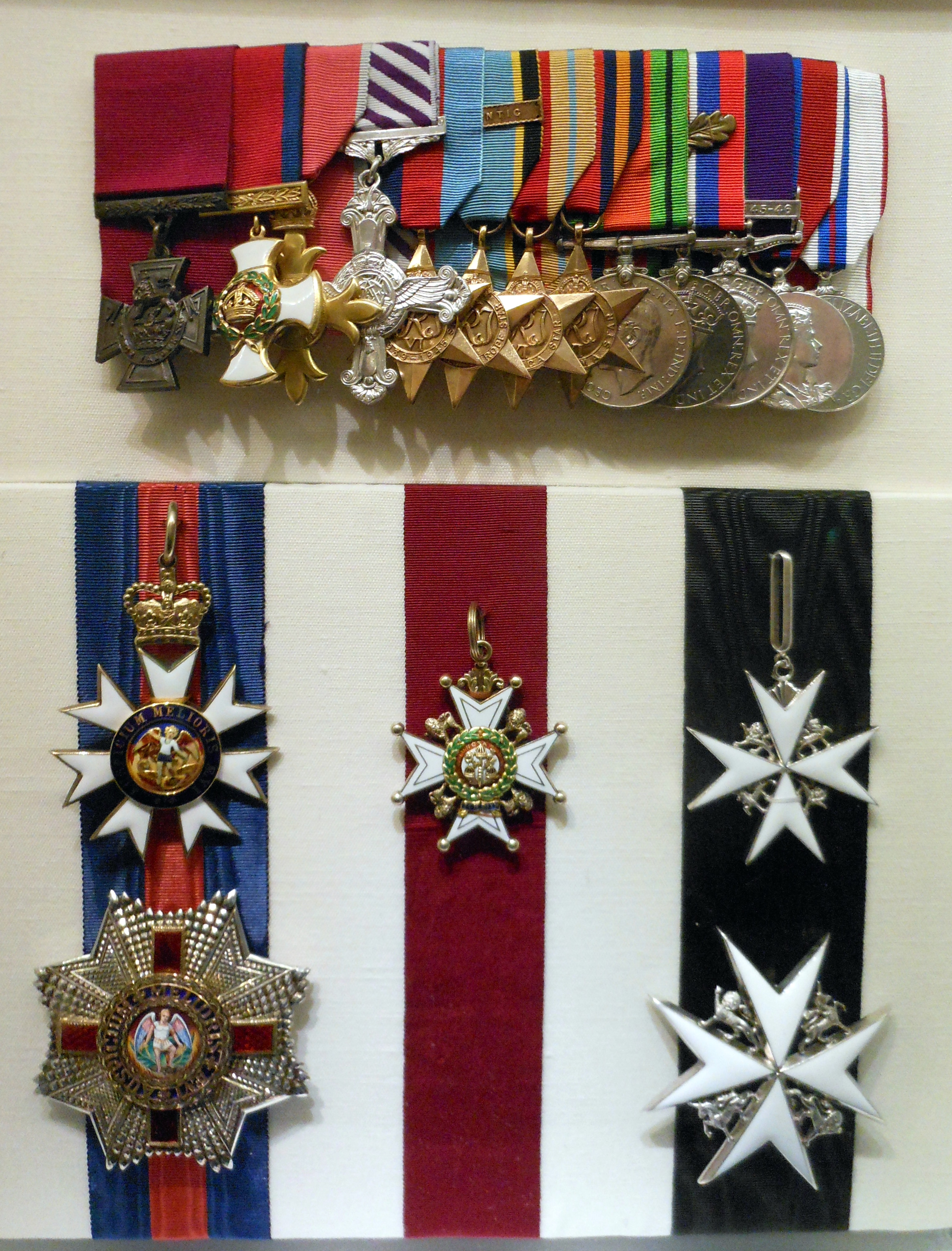 The decorations and medals awarded to Sir Hughie Edwards on display at the Australian War Memorial, Canberra.